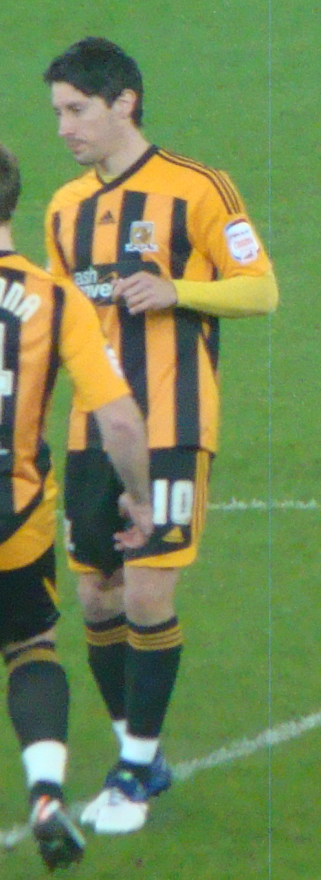 Robert Koren. Image cropped from original at flickr.